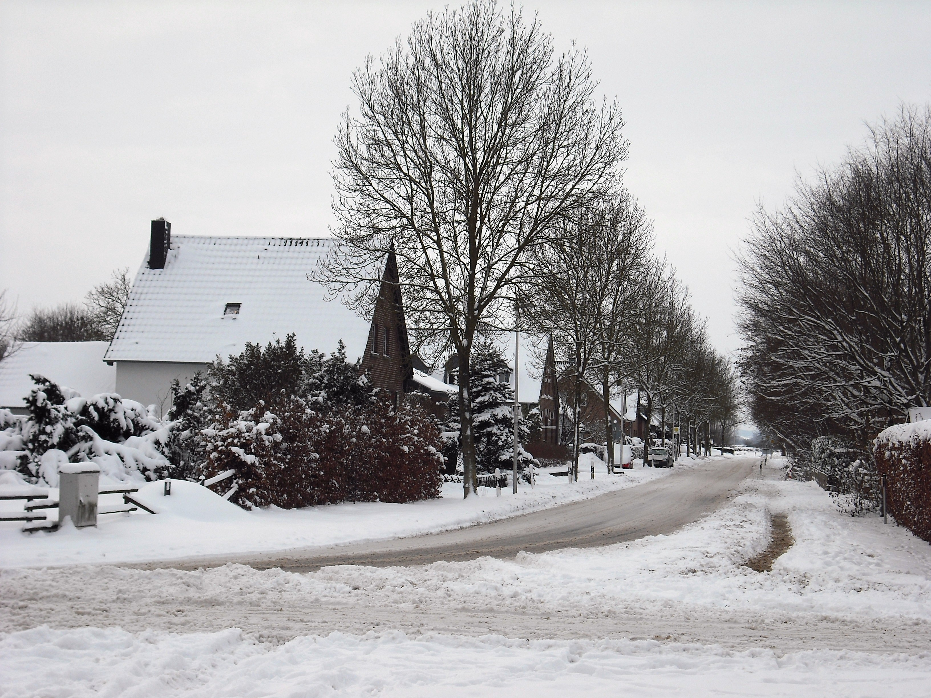 Mehrerstreet - Kleve-Donsbrüggen, Germany